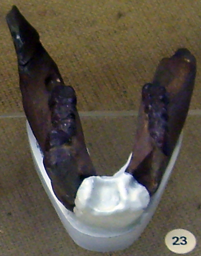 Dryopithecus fontani jaw cast at the Geological Museum, Copenhagen.